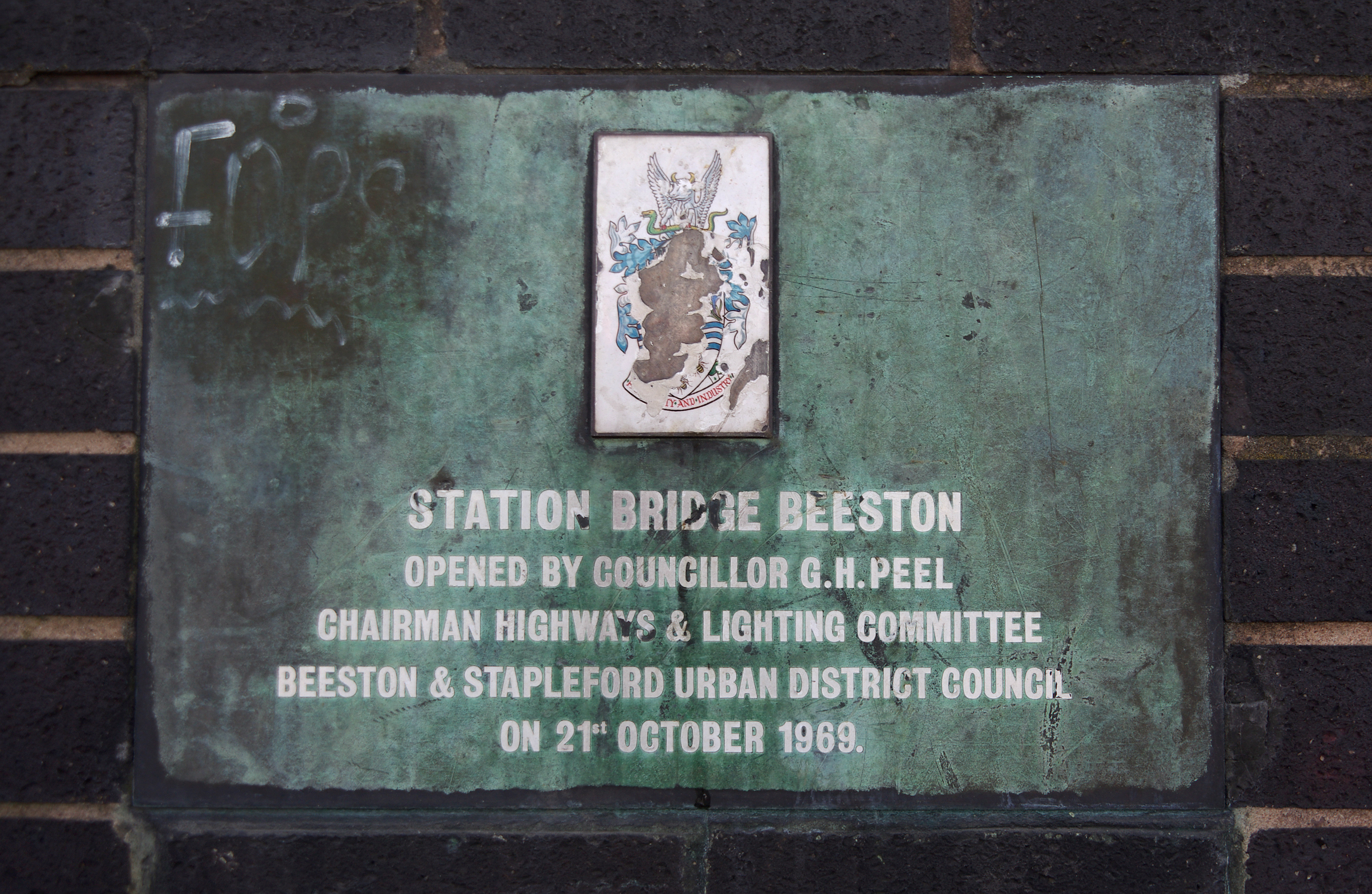 Station Bridge Beeston Opened by Councillor C.M.Peel Chairman Highways & Lighting Committee Beeston & Stapleford Urban District Council On 21st October 1969 Plaque on the Station Road bridge in Beeston.